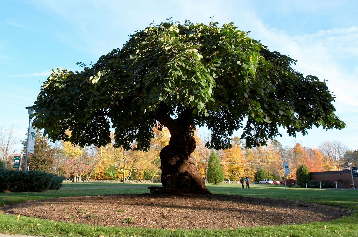 Post University tree found in the Waterbury, CT campus.